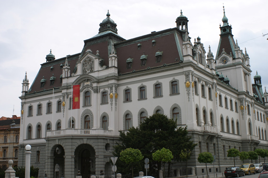 University of Ljubljana, SloveniaThe main building of the university, "Rektorat Univerze".